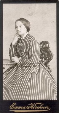 Portrait of Emma Kirchner (1830-1909), German photographer in Delft in the Netherland, head to the left, sitting, leaning on the elbow, looking away. Museum of Paul Tetar van Elven in Delft.